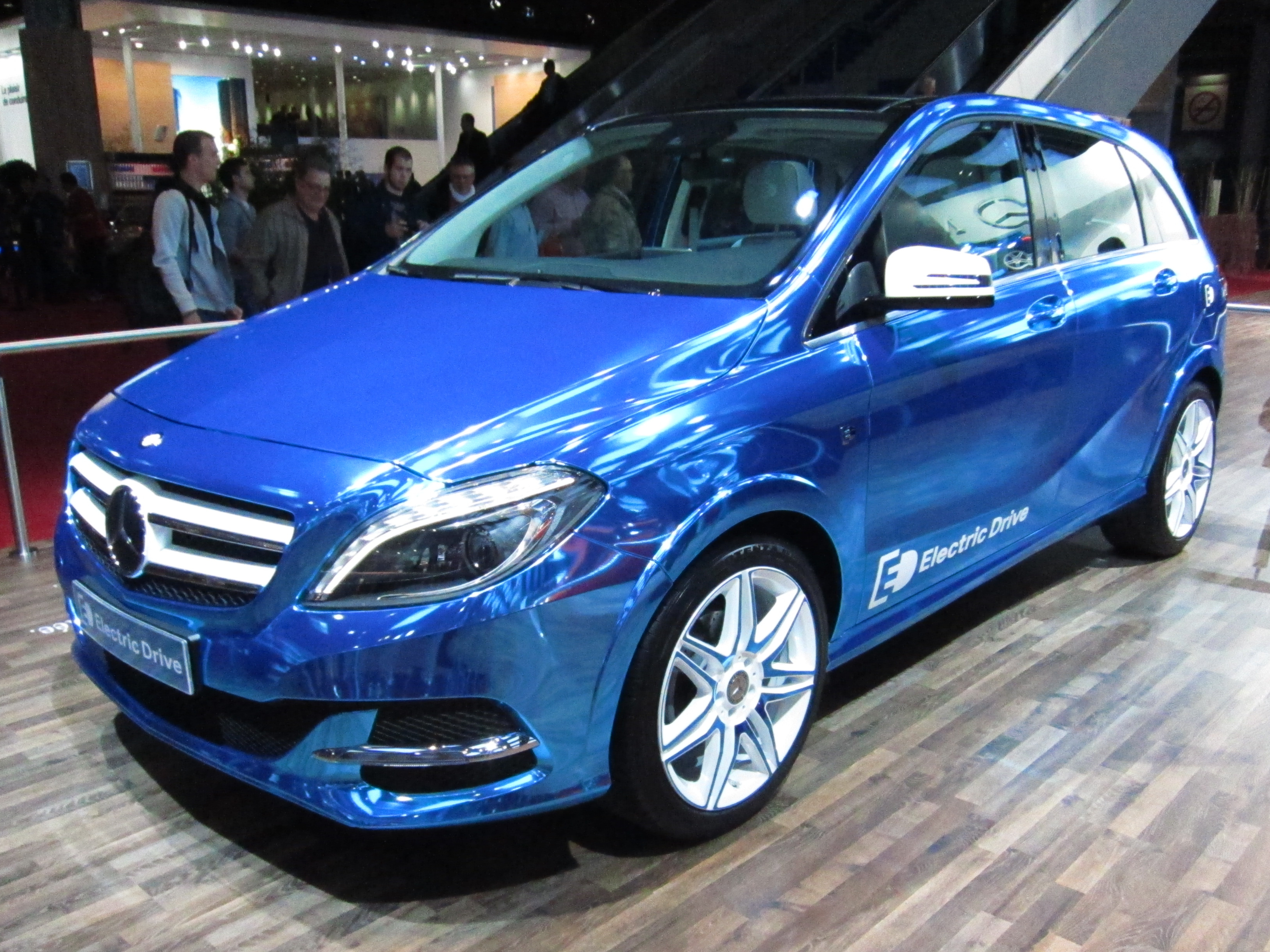 Mercedes-Benz B-Class Electric Drive Concept at Mondial de l'Automobile Paris 2012